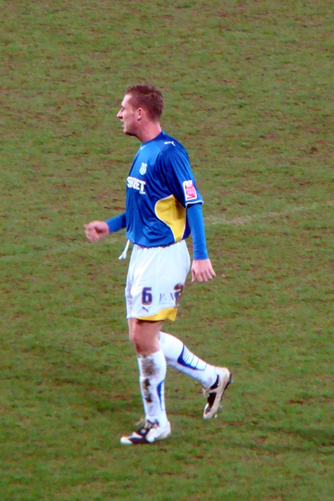 16/02/10 Cardiff V West Brom, Championship, Cardiff City Stadium, Cardiff, Wales